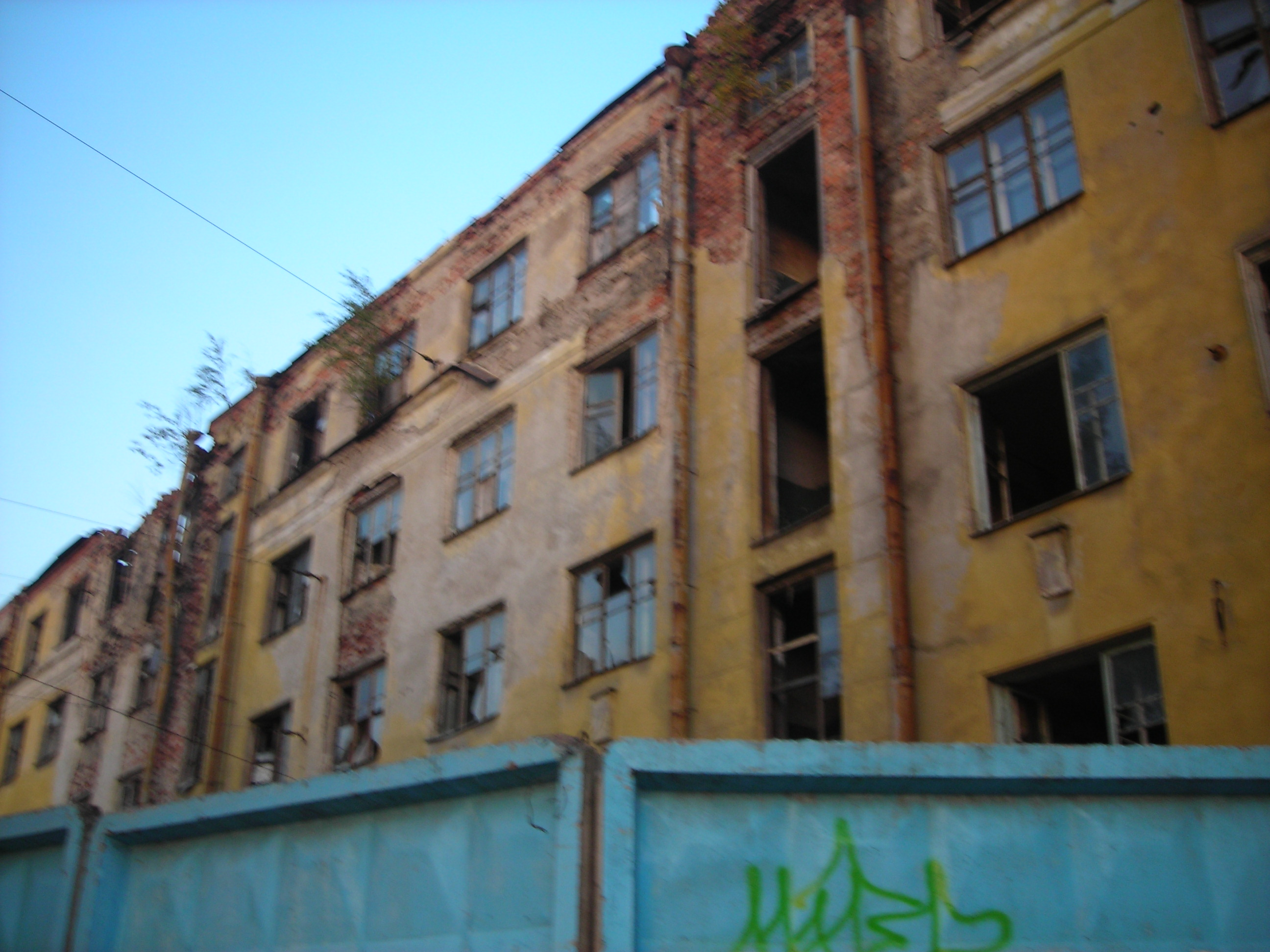 Ruined house on Tikhoretsky prospect, St. Petersburg